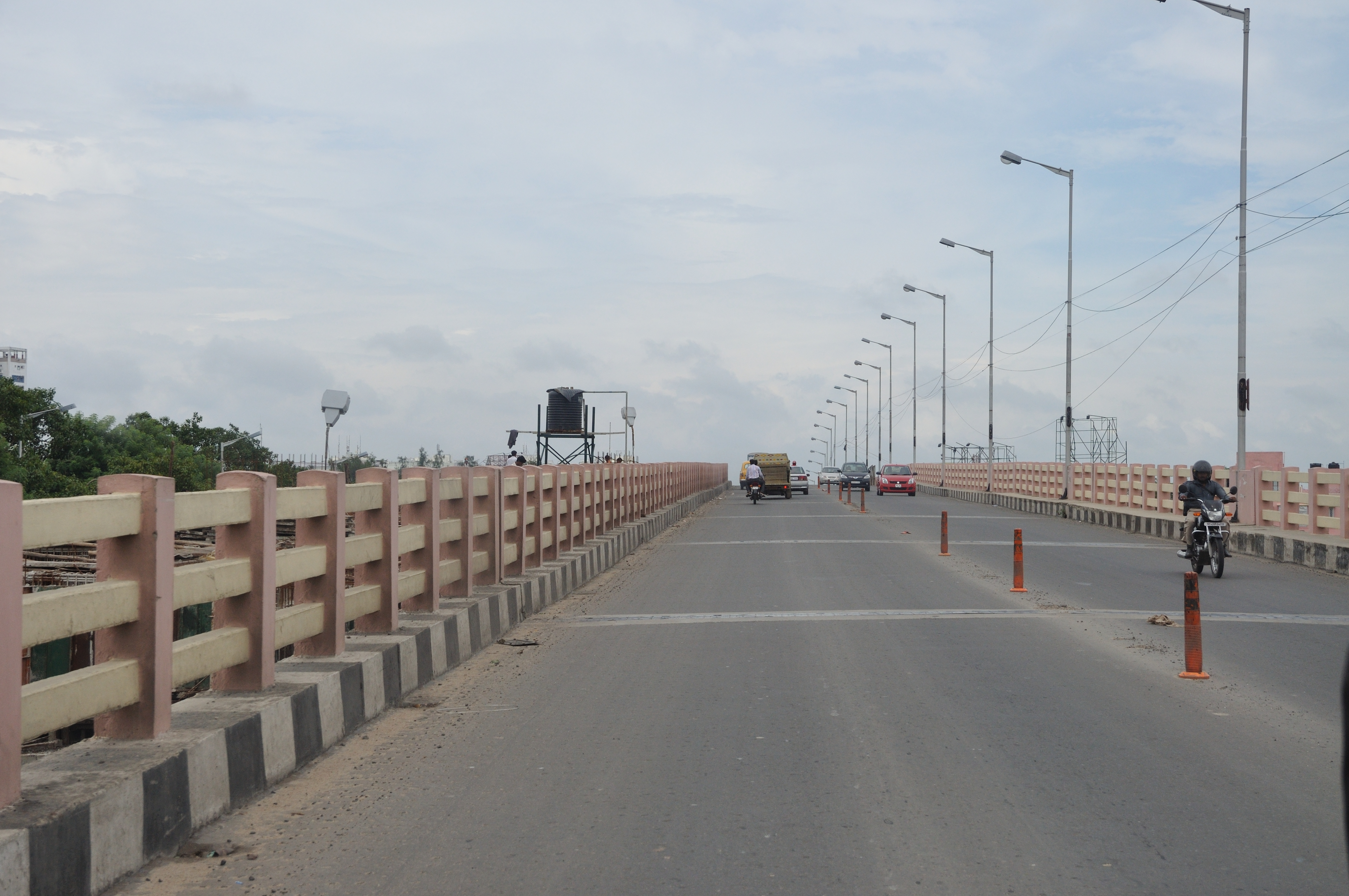 Baghajatin rail over bridge on Eastern Metropolitan Bypass at, Kolkata.